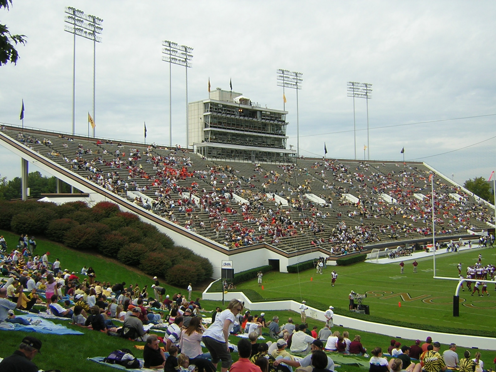 Groves Stadium (en), home of the Wake Forest University (Wake Forest University) college football team. This photo of the press box side (home sideline) was taken prior to the 2004 game between Virginia Tech and Wake Forest.